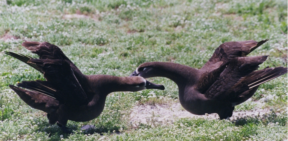 Dance of Black-footed Albatrosses at Midway Atoll. The image is a scan of an old print. The image was taken by Brocken Inaglory